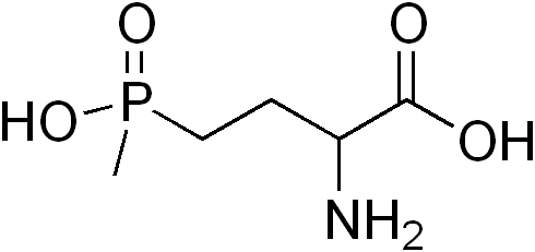 Chemical structure of glufosinate